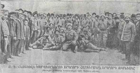 The image is published in 1915-july-20. The Armenian volunteer units in the Russian army.